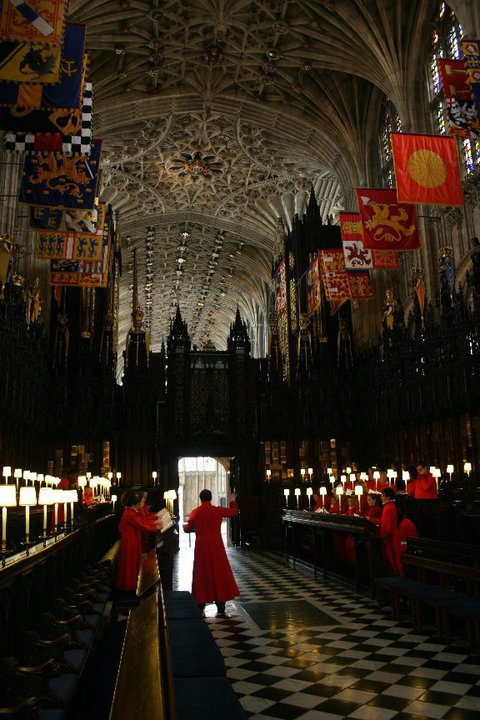 The choirs of All Saints' Church premièring James MacMillan in St George's Chapel, Windsor